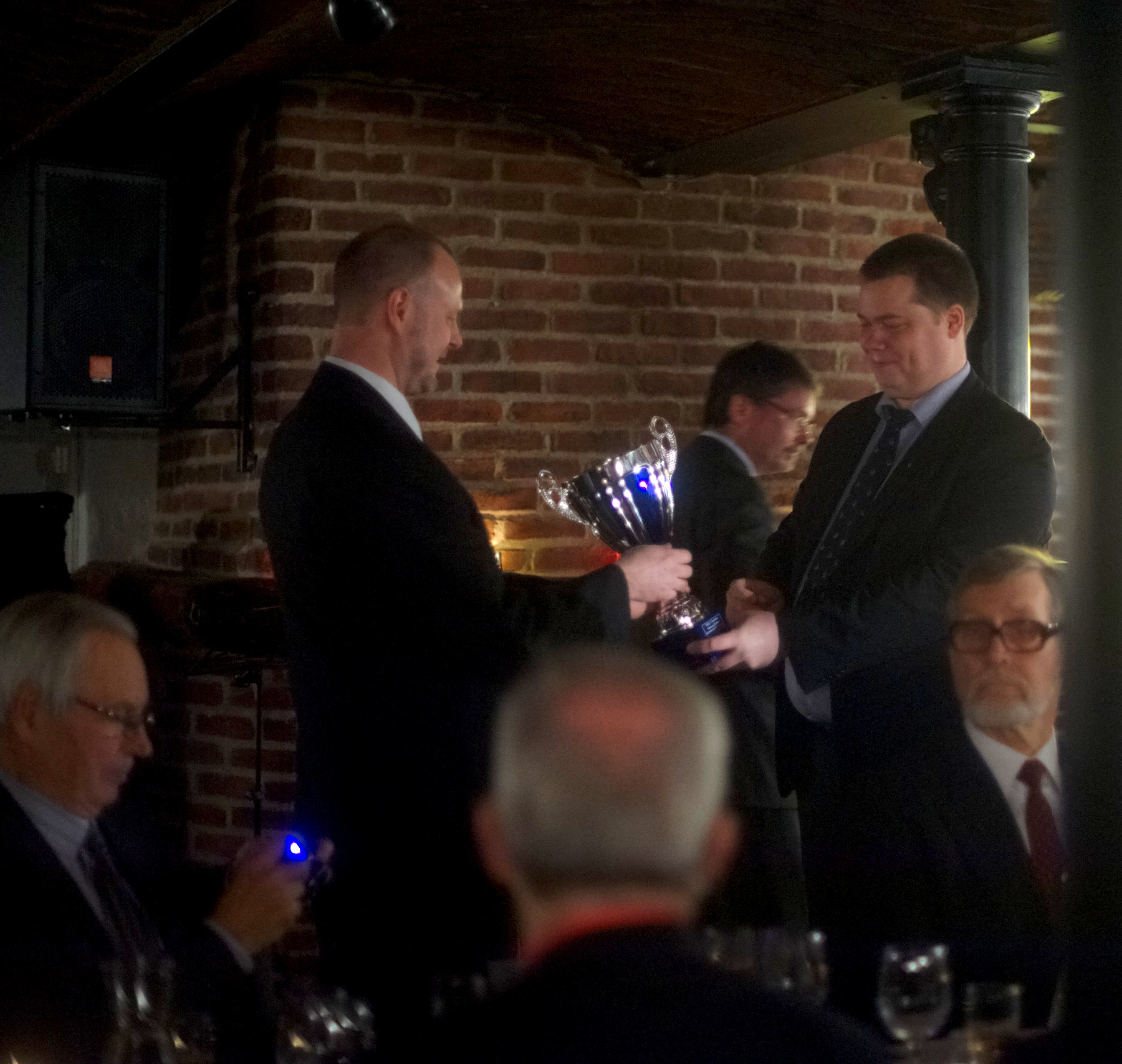 Tatu Kosonen (the president of the Photoclub Saimaan Kameraseura) giving the "Erkki Niemelä's cup" for Reino Havumäki (the president of the Association of the Finnish Camera Clubs) in Helsinki 2012